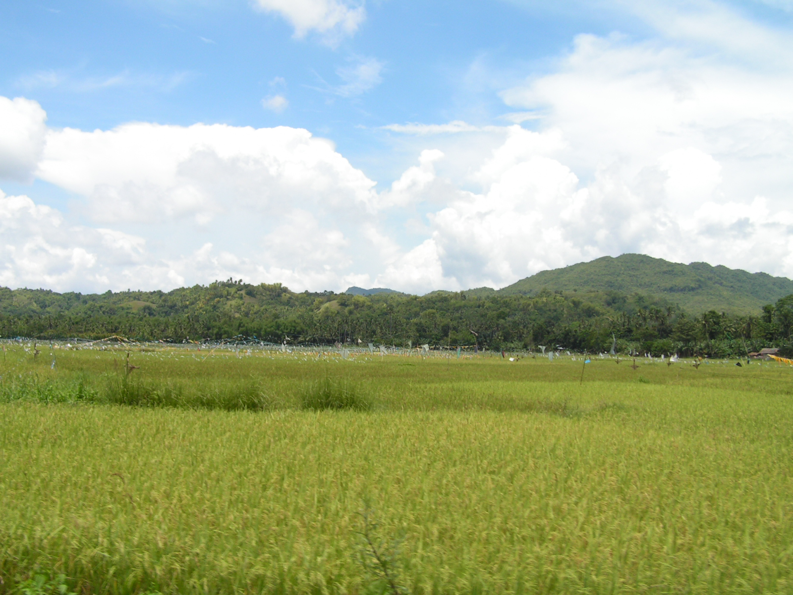 Rice fields at Loboc, Bohol island in the Phillippines. own work